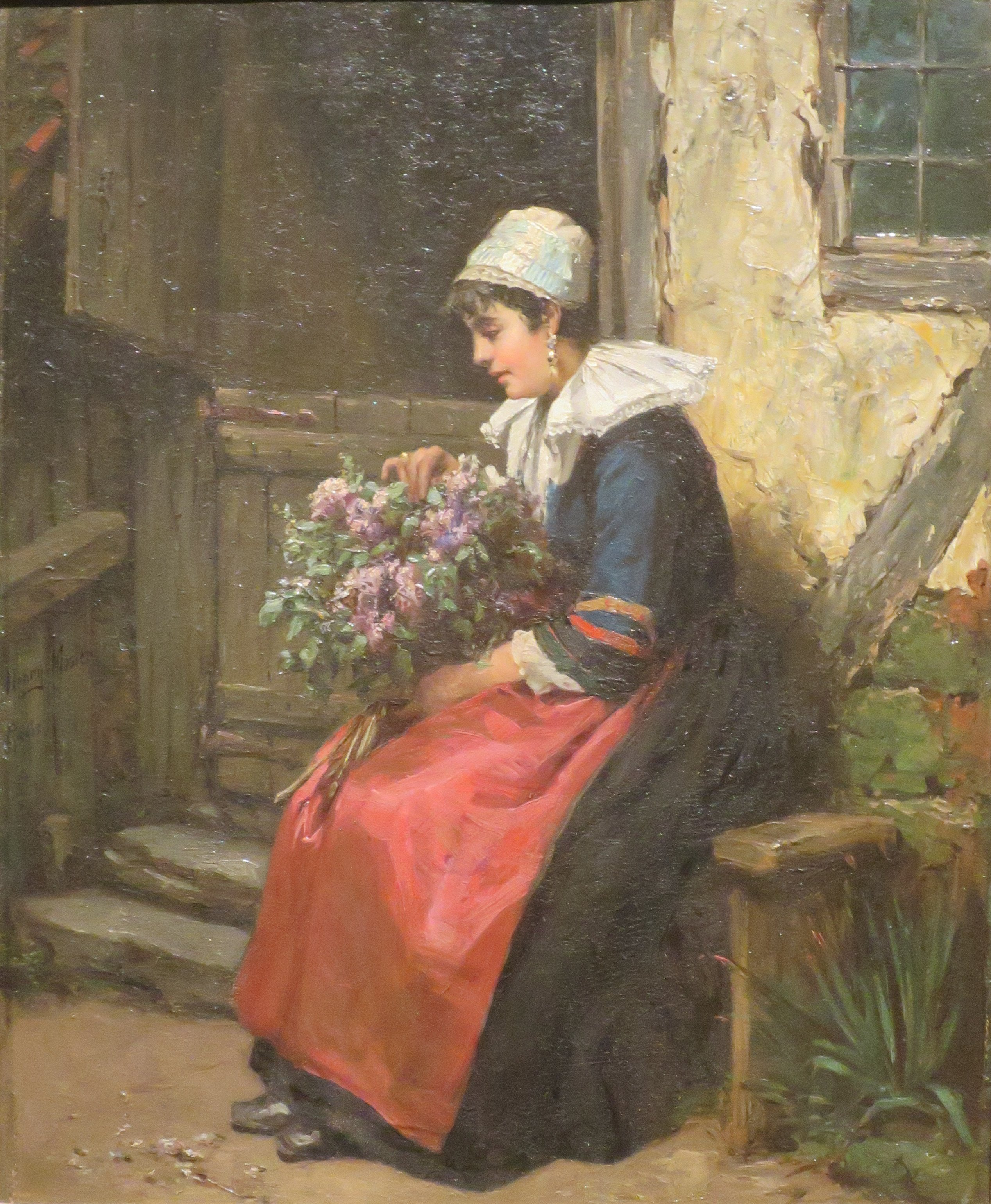 The Beauty